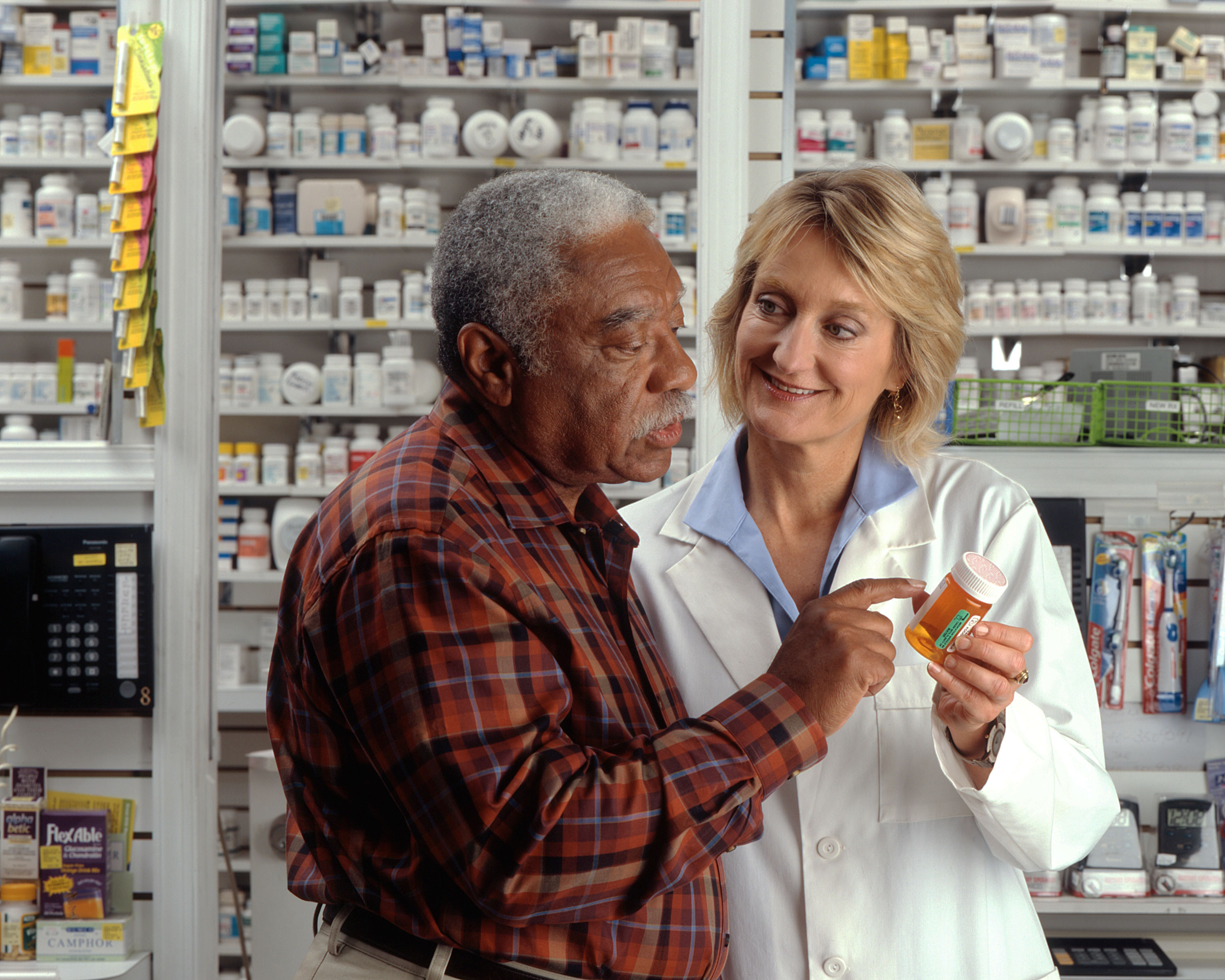 Title Man Consults with Pharmacist Description A older African-American man talks to a Caucasian female pharmacist as she explains his prescription. Topics/Categories Locations -- Clinic/Hospital People -- Adult People -- Health Professional and Patient Type Color, Photo Source National Cancer Institute